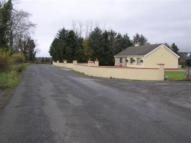 Road near Urlagh Heading NNE